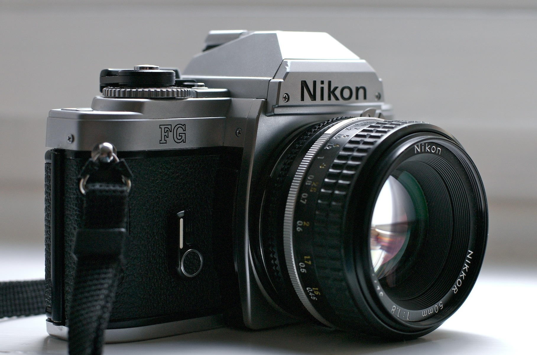 Photograph of a Nikon FG classic SLR photographic camera with Nikkor 50 mm f/1.8 lens